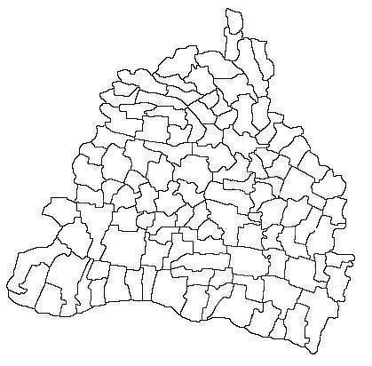 Location map of Dolj County, Romania with limits of communes